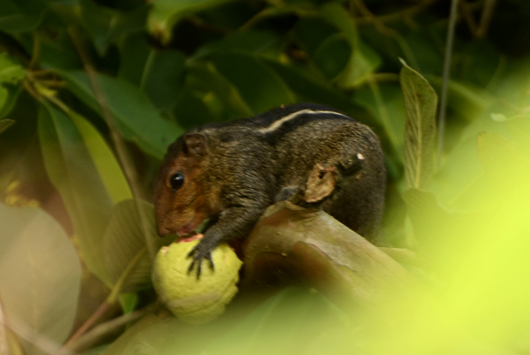 Jungle striped squirrel Funambulus tristriatus eating Psidium guajava fruit in Anaimalai Hills